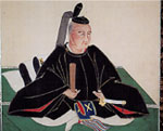 Niwa Hidenobu, lord of the Nihonmatsu domain.